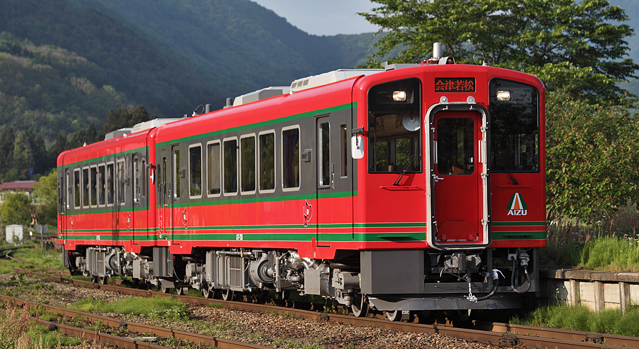 Aizu Railway Type AT-750 DMU on local train